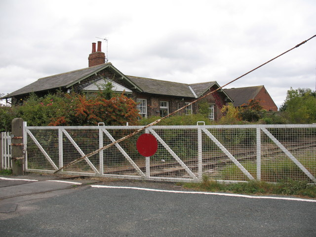 The old station house at Morton-on-Swale, North Yorkshire